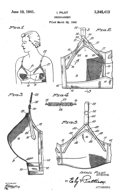 These are the diagrams for Israel Pilot's 1941 US Patent #2245413 and are public domain. The now expired patent covers a design for improving the comfort and wear-ability for brassieres using a "diagonal slash" where the shoulder straps meet the brassiere cup. This is public domain and was sources from the US patent office. This diagram is part of the Wonder-Bra history. Israel Pilot trademarked the Wonder-Bra in 1935. His company, D'Amour, manufactured this design under that trade-mark in the US from 1940 through 1955.